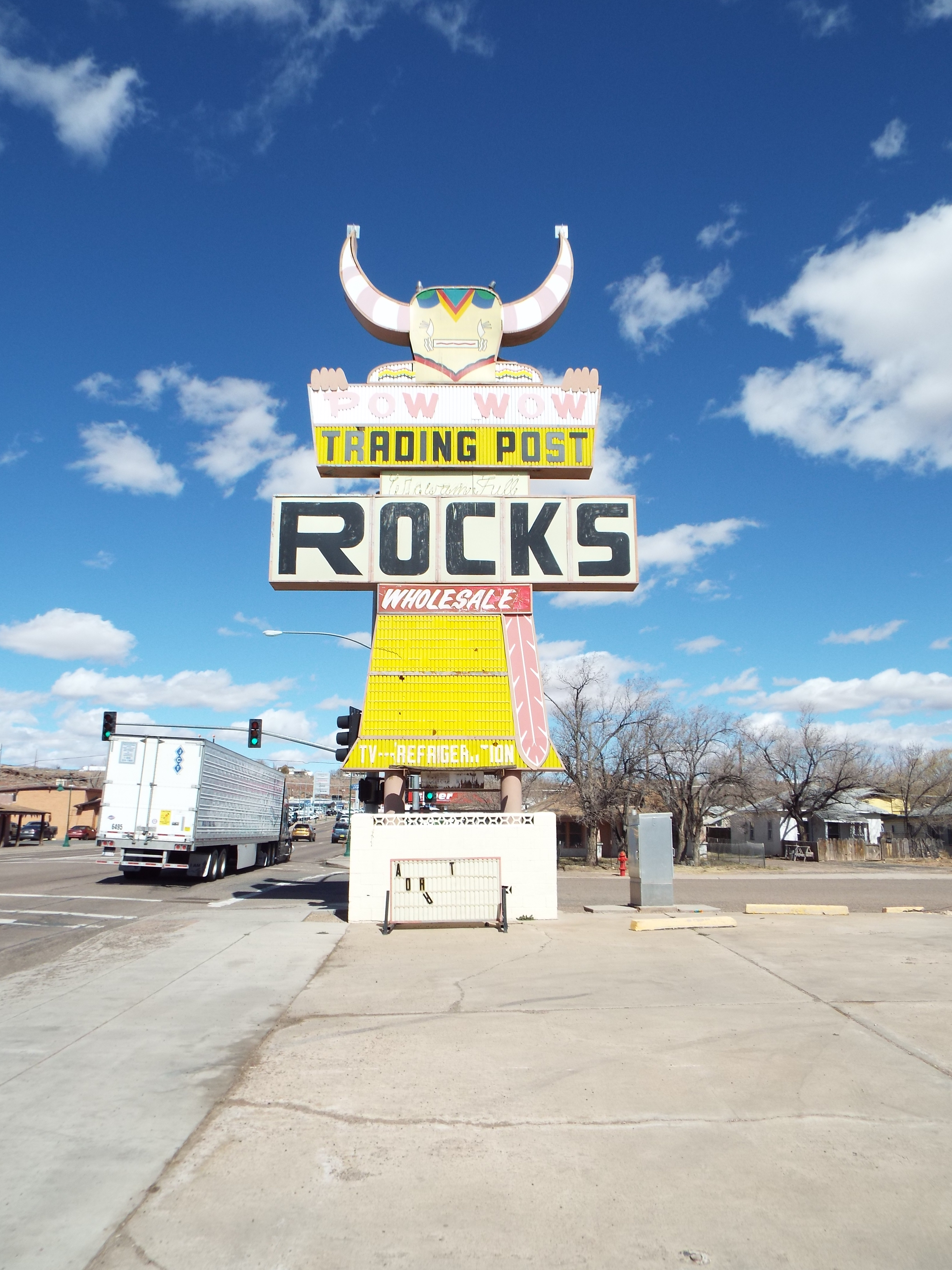 Pow Wow Trading Post 635 Elm St "The POW WOW Trading Post, used to be a Motel with Curio-Rock Shop in the early days. The rooms were converted into a larger Rock Shop & trading post, featuring all things Geological." 752 North Navajo